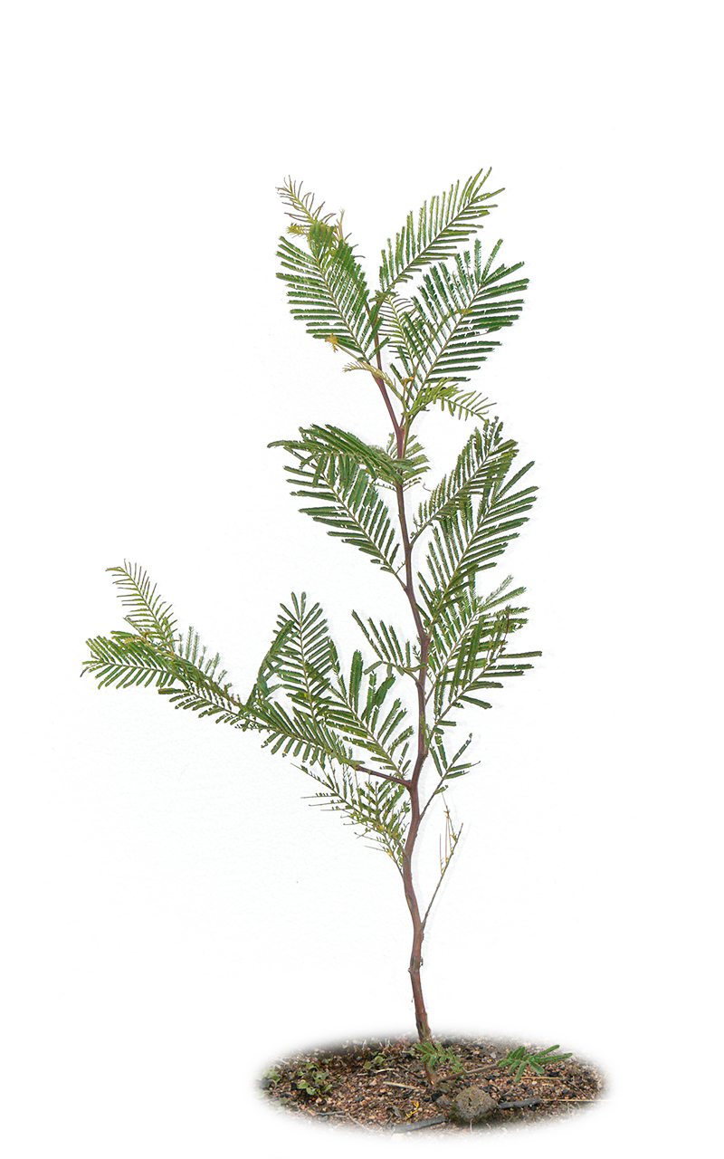 A Black wattle (Acacia mearnsii) sappling